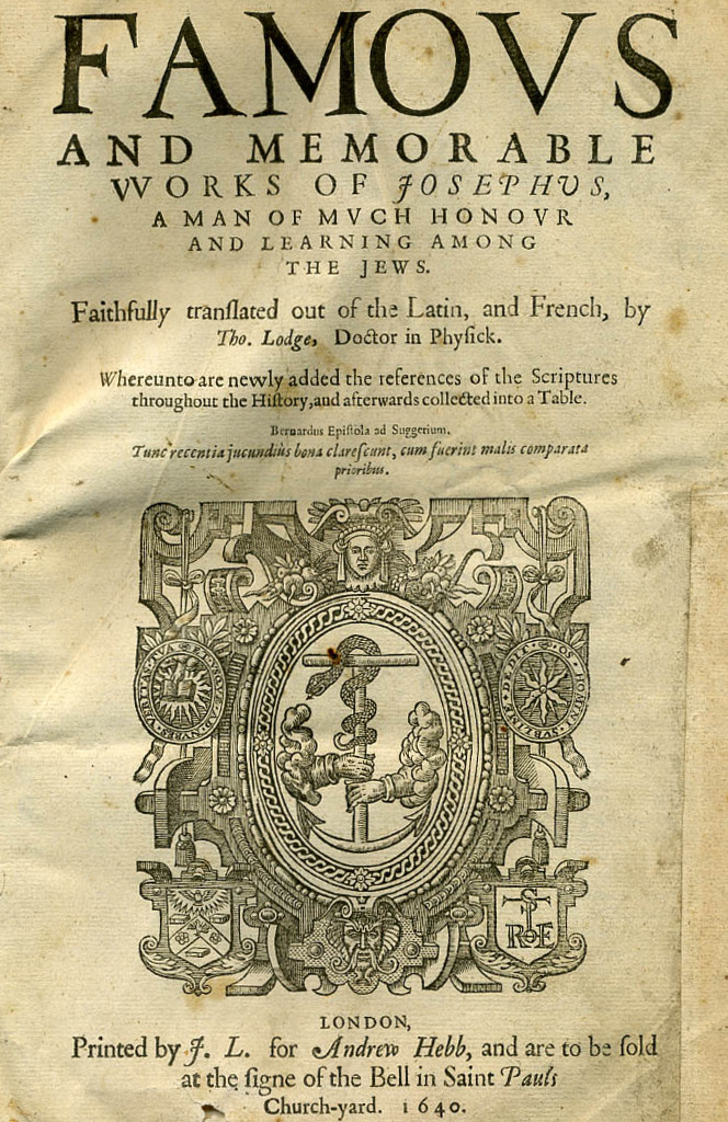 Titlepage of the 1640 edition of the collected works of Josephus translated by Thomas Lodge, first published in 1602.